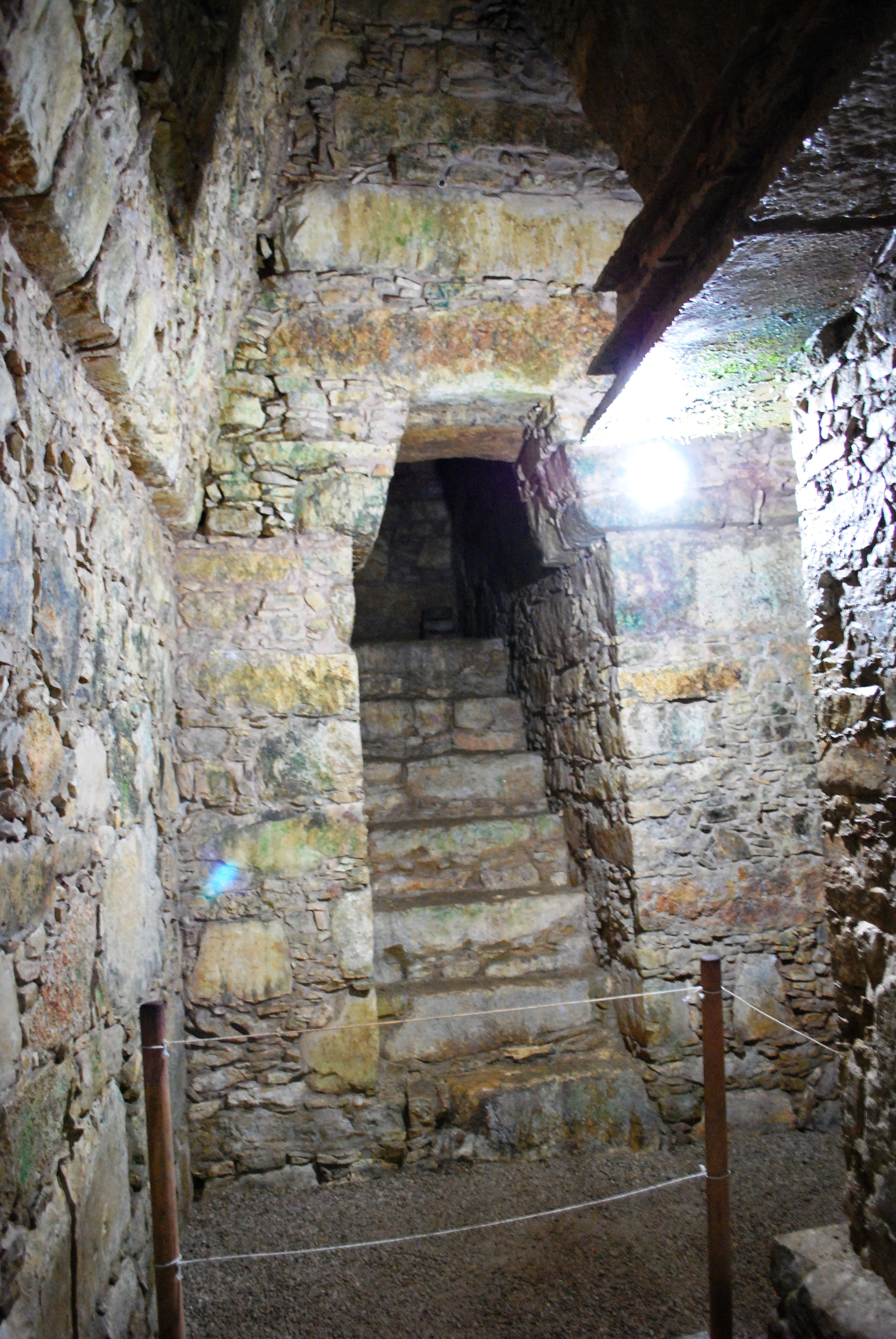 Chamber inside the tomb of Temple XIII at Palenque, Chiapas, Mexico